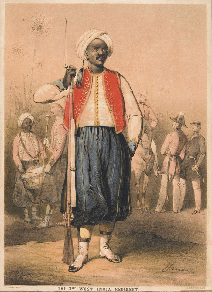 Soldier of the 3rd West India Regiment, 1863. Coloured lithograph by M. & N. Hanhart, after J. Brandard, published 1863. Unlike most colonial units, the West India Regiment was an integral part of the British Regular Army. During the 1850s it adopted a uniform modelled on that of the French Zouaves. This included a red fez wound about by a white turban, a red sleeveless jacket with yellow braiding worn over a long-sleeved white shirt, and dark blue baggy breeches. The 3rd West India Regiment was disbanded in 1870. National Army Museum Collection, London: NAM Accession Number 2000-09-123-1